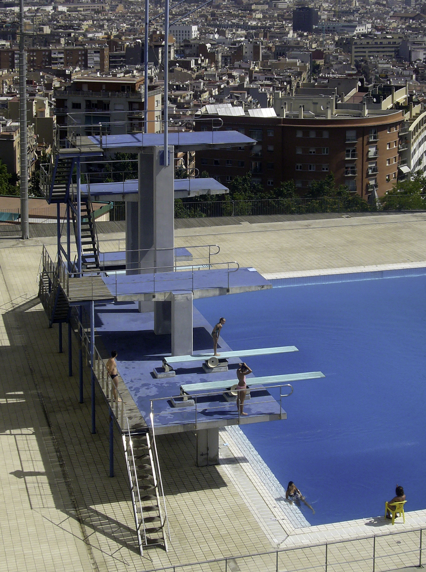 Piscina Municipal de Montjuïc. Spring tower